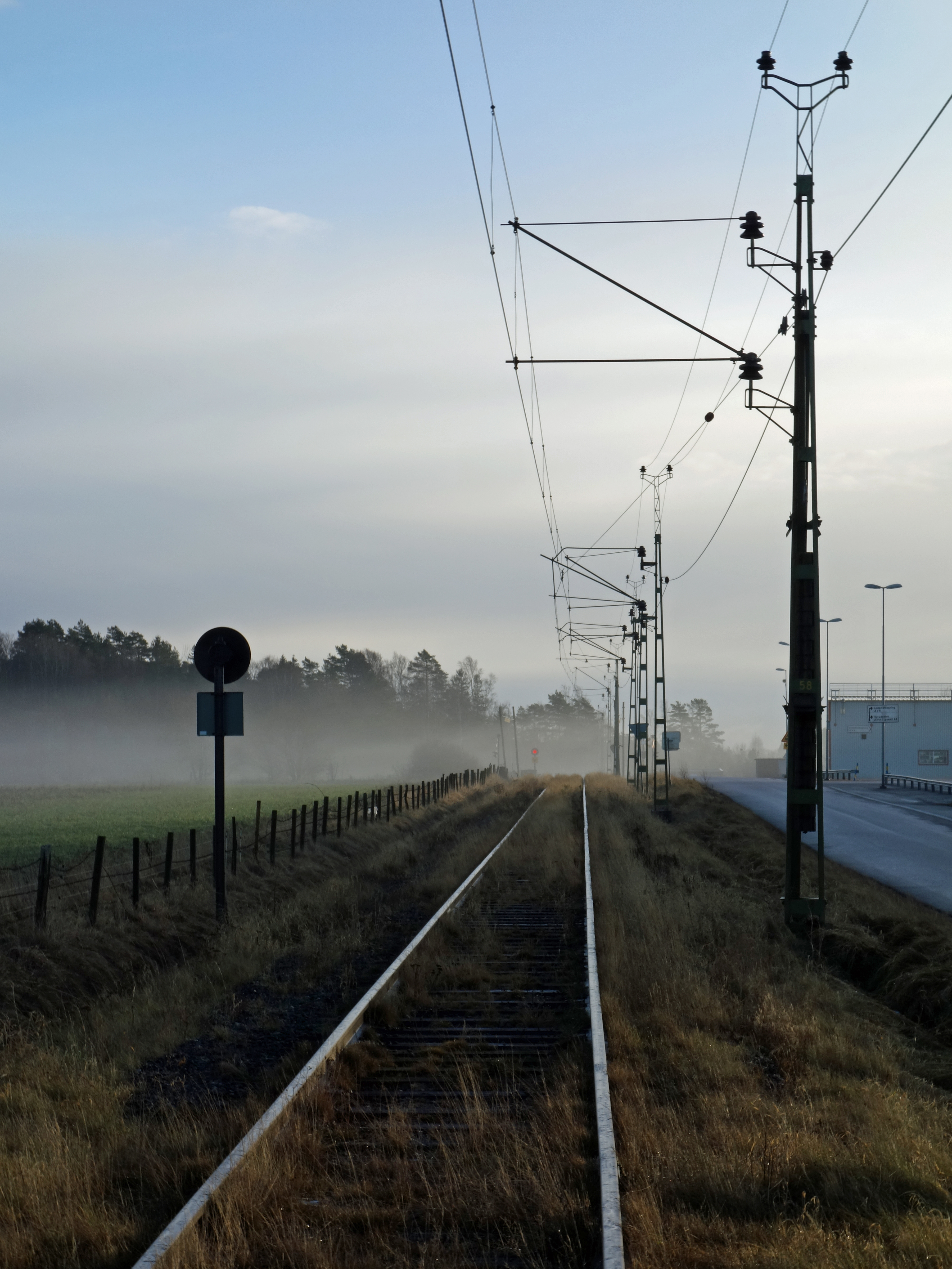 Fog across the tracks of the railway to Lysekil at Gåseberg, Lysekil Municipality, Sweden. The railway is part of Lysekilsbanan, an inactive line in 2016. For active railroads, do not take pictures on, or in very close proximity to, the tracks unless you are able to arrange safe circumstances to do so.